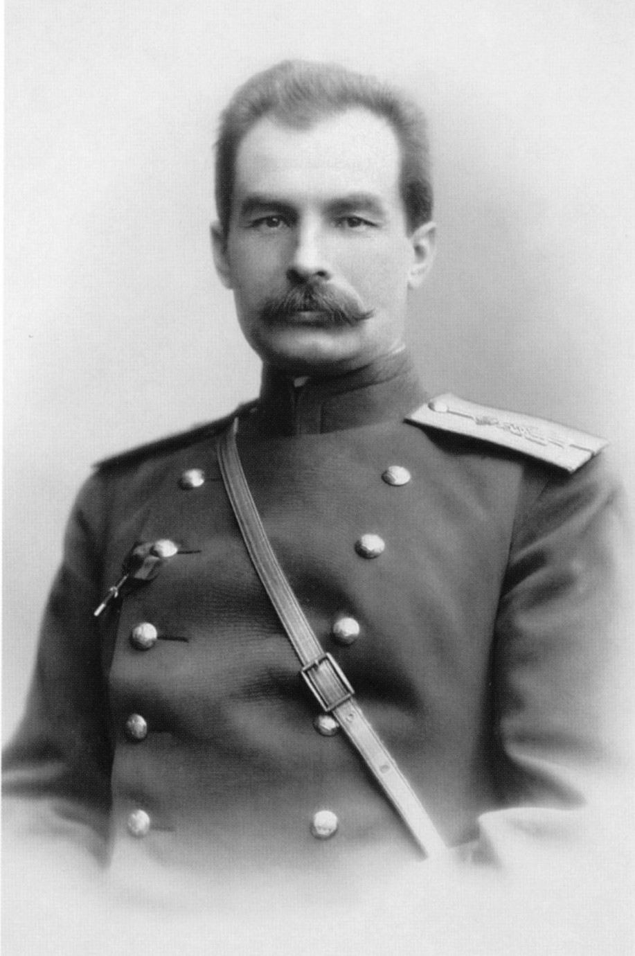 Kozlov, Pyotr Kuzmich (1863-1935).